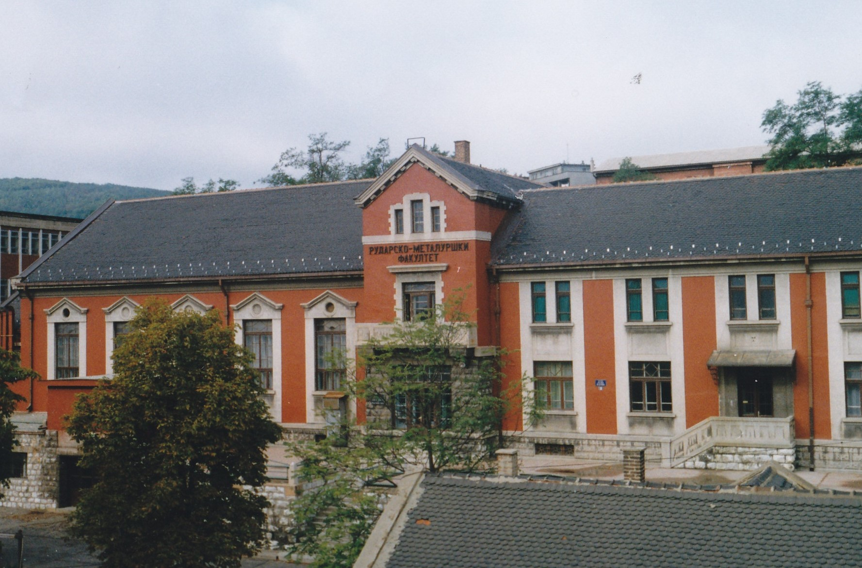 Building of the Technical Faculty in Bor